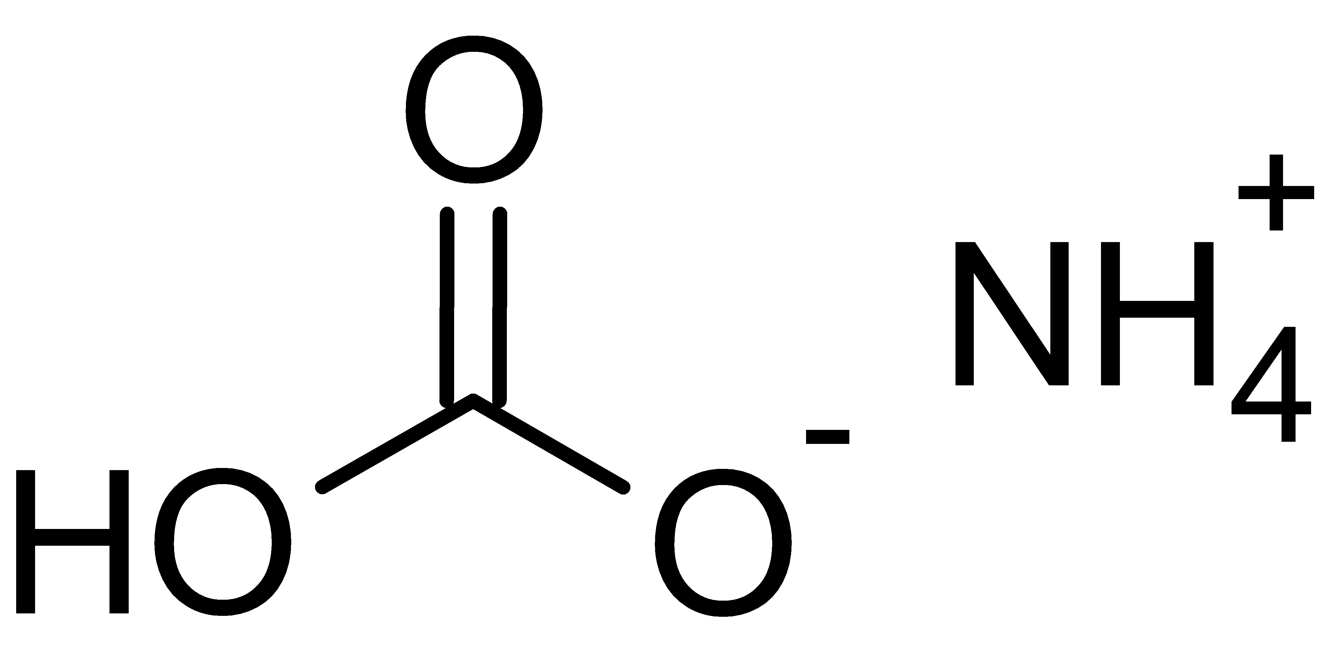 2D model of Ammonium bicarbonate.